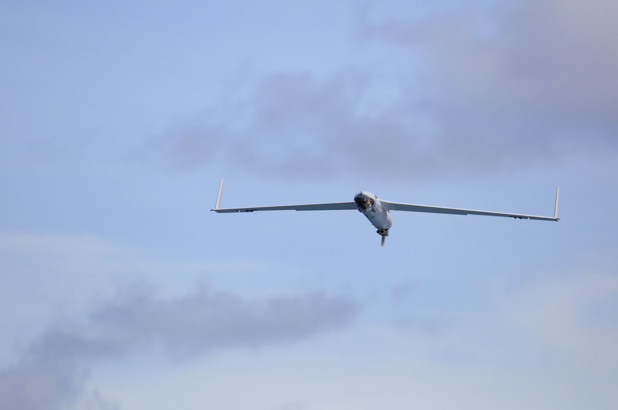 PACIFIC OCEAN (Feb. 26, 2011) A Scan Eagle unmanned aerial vehicle in flight during launch and recovery exercises aboard the amphibious dock landing ship USS Comstock (LSD 45). Scan Eagle is a runway independent, long-endurance, unmanned aerial vehicle system designed to provide multiple surveillance, reconnaissance data, and battlefield damage assessment missions. Comstock is part of the Boxer Amphibious Ready Group and is underway in the U.S. 7th Fleet area of responsibility. (U.S. Navy photo by Mass Communication Specialist 2nd Class Joseph M. Buliavac/Released)